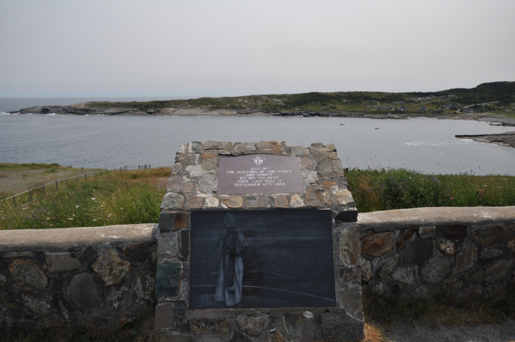 Blessing of the Fleet and Homily Site, Flatrock, Newfoundland